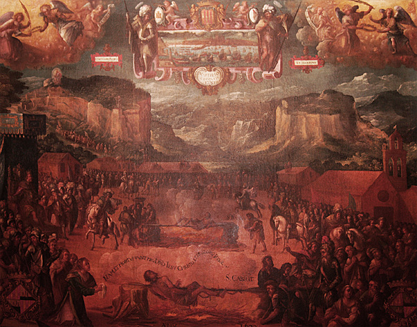 Martyrdom of Cabrit i Bassa, at Alaró, painting of 1630 ca.